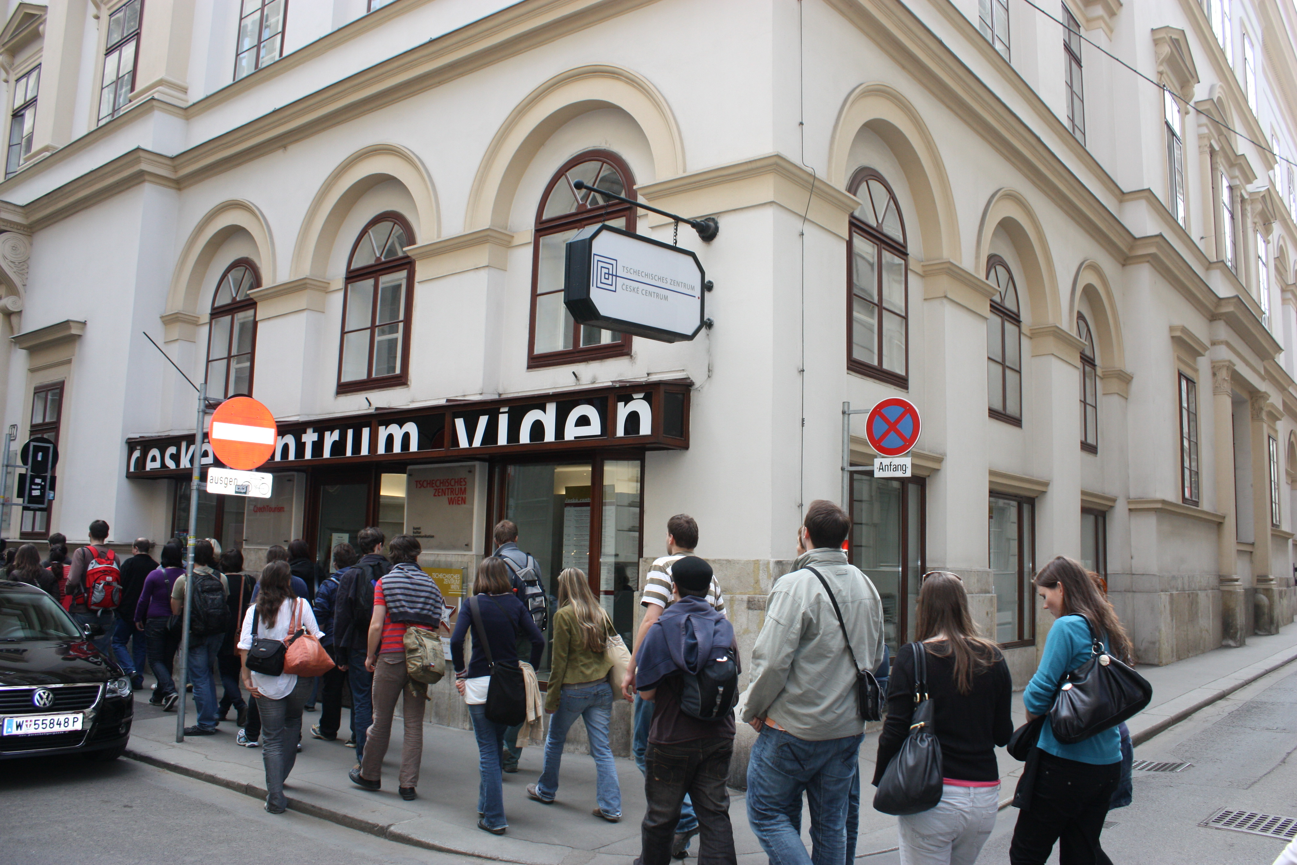 Czech Centre in Herrengasse, Vienna, Austria